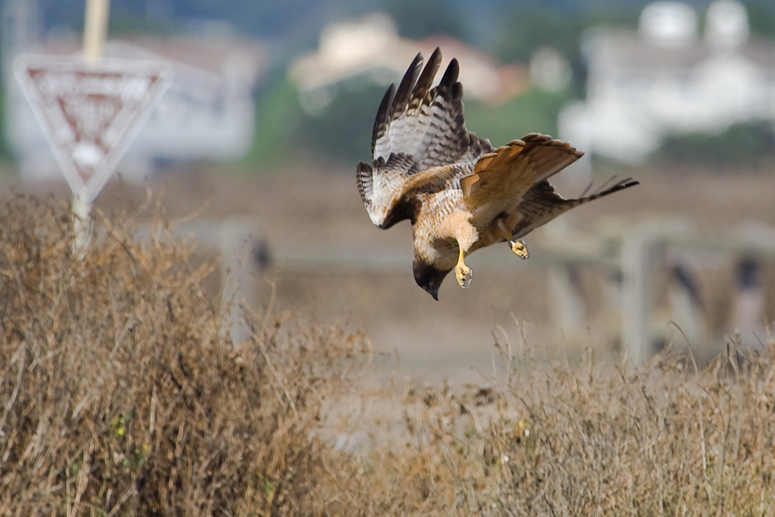 Red-tailed Hawk Buteo jamaicensis diving in to catch a meadow vole at Bluff Top Coastal Park, Half Moon Bay, California, USA.